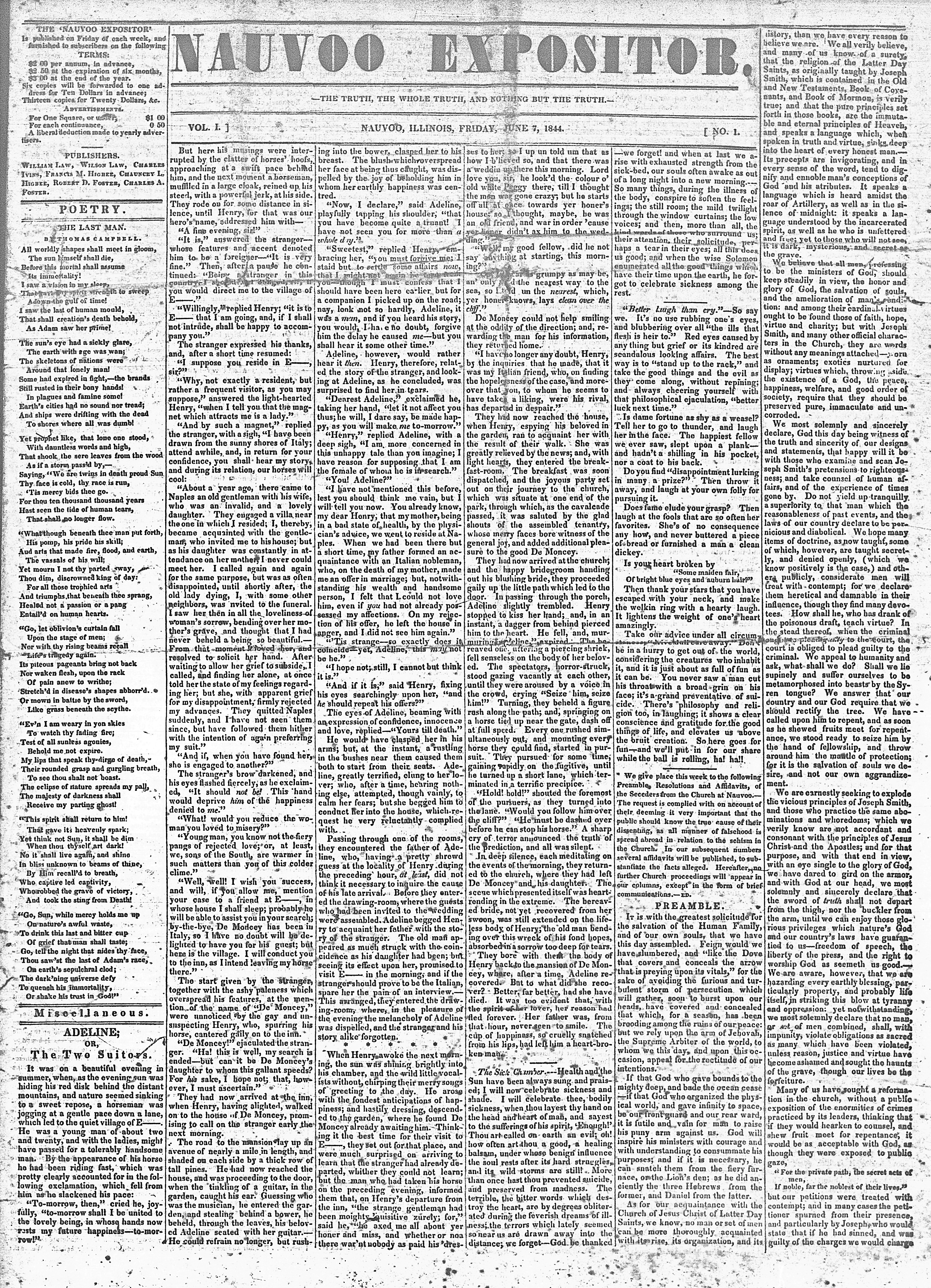 Example of the front page of the Nauvoo Expositor, originally published 7 June 1844 in Nauvoo.